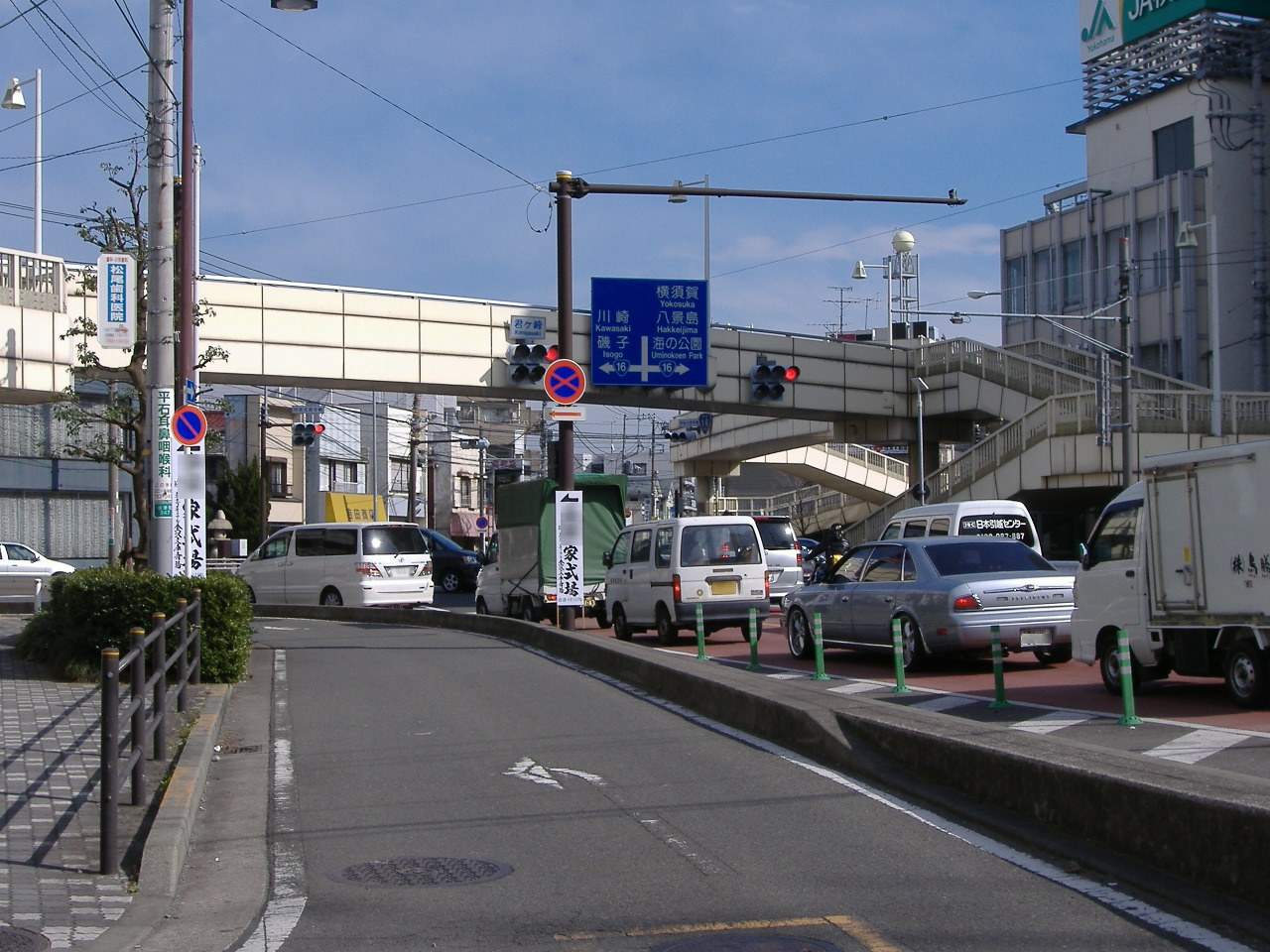 Kimigasaki-kousaten (Yokohama,Japan)